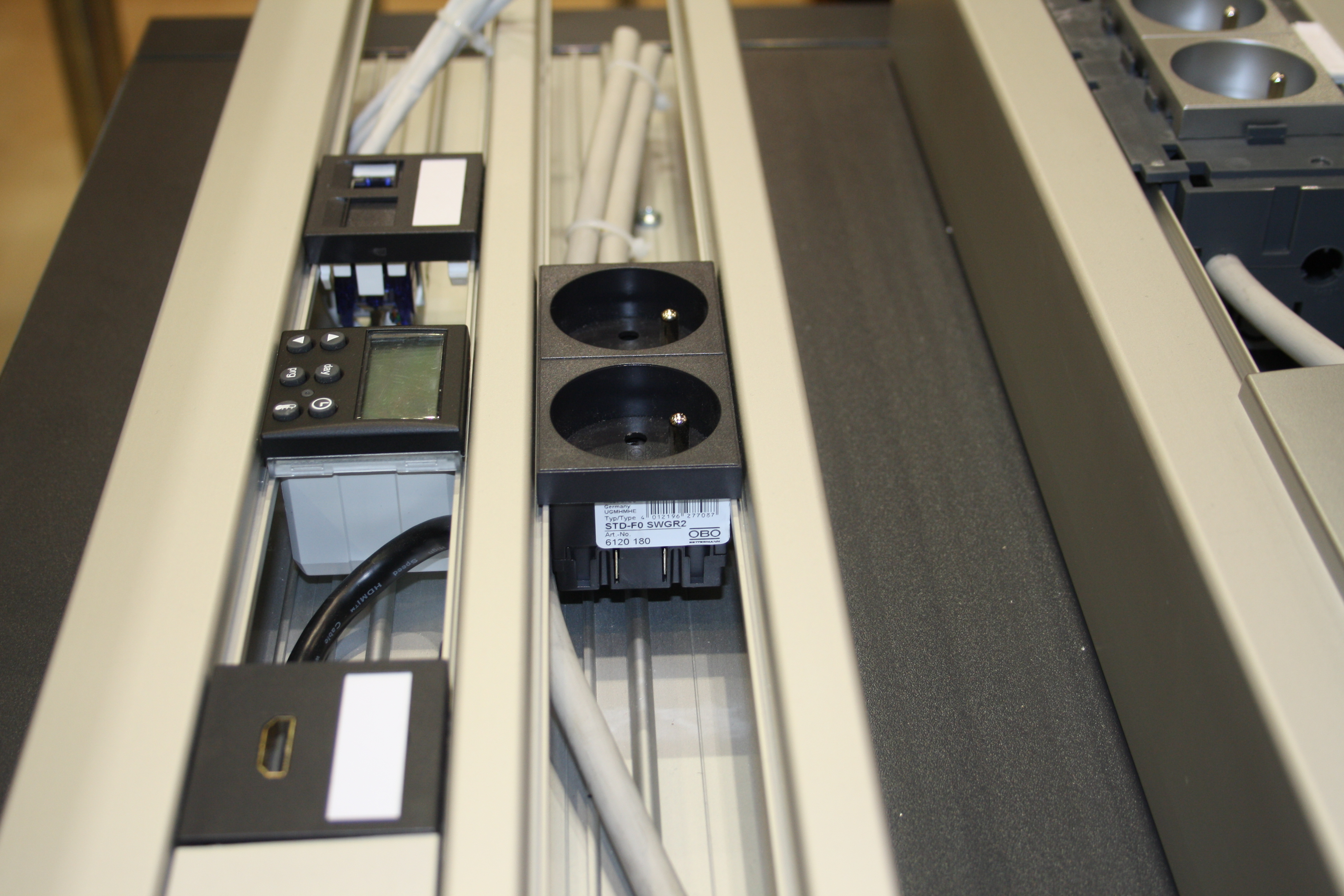 Cable channel with power socket (45 × 45 mm)